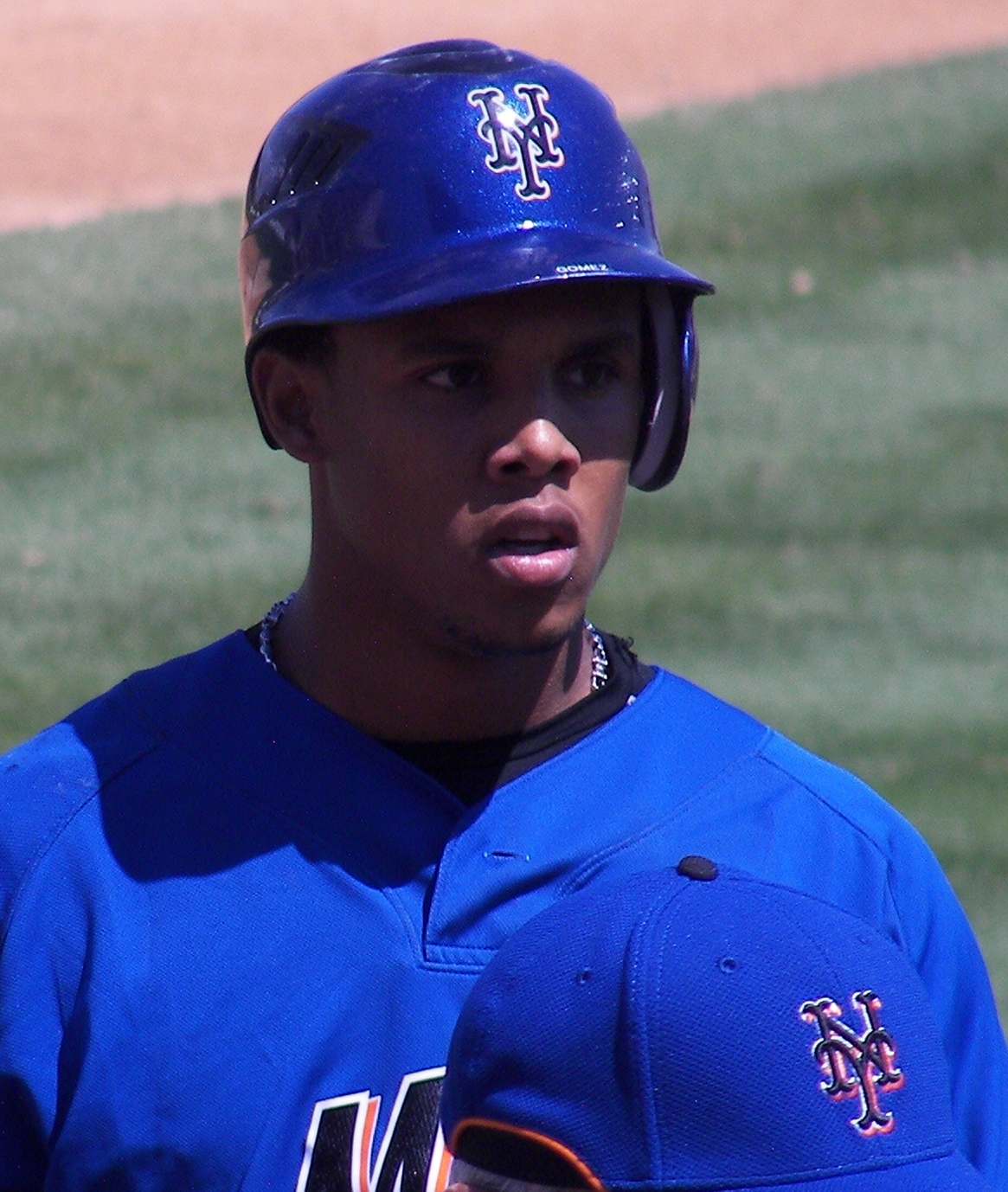 Gomez of the Mets